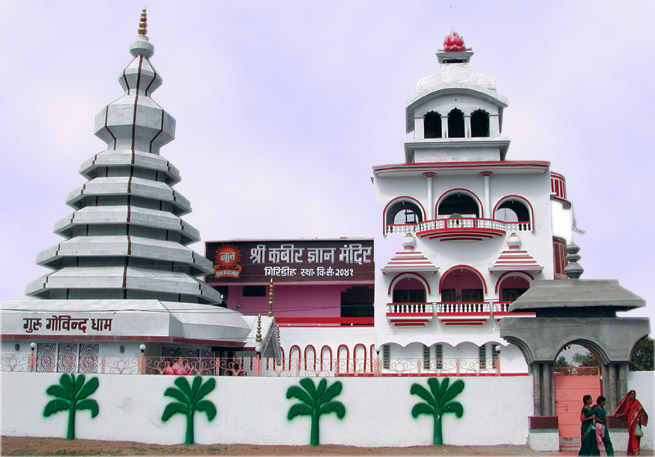 Photo of Kabir Gyan Mandir, Giridih, headquarters of the Giridih district of Jharkhand state, India.